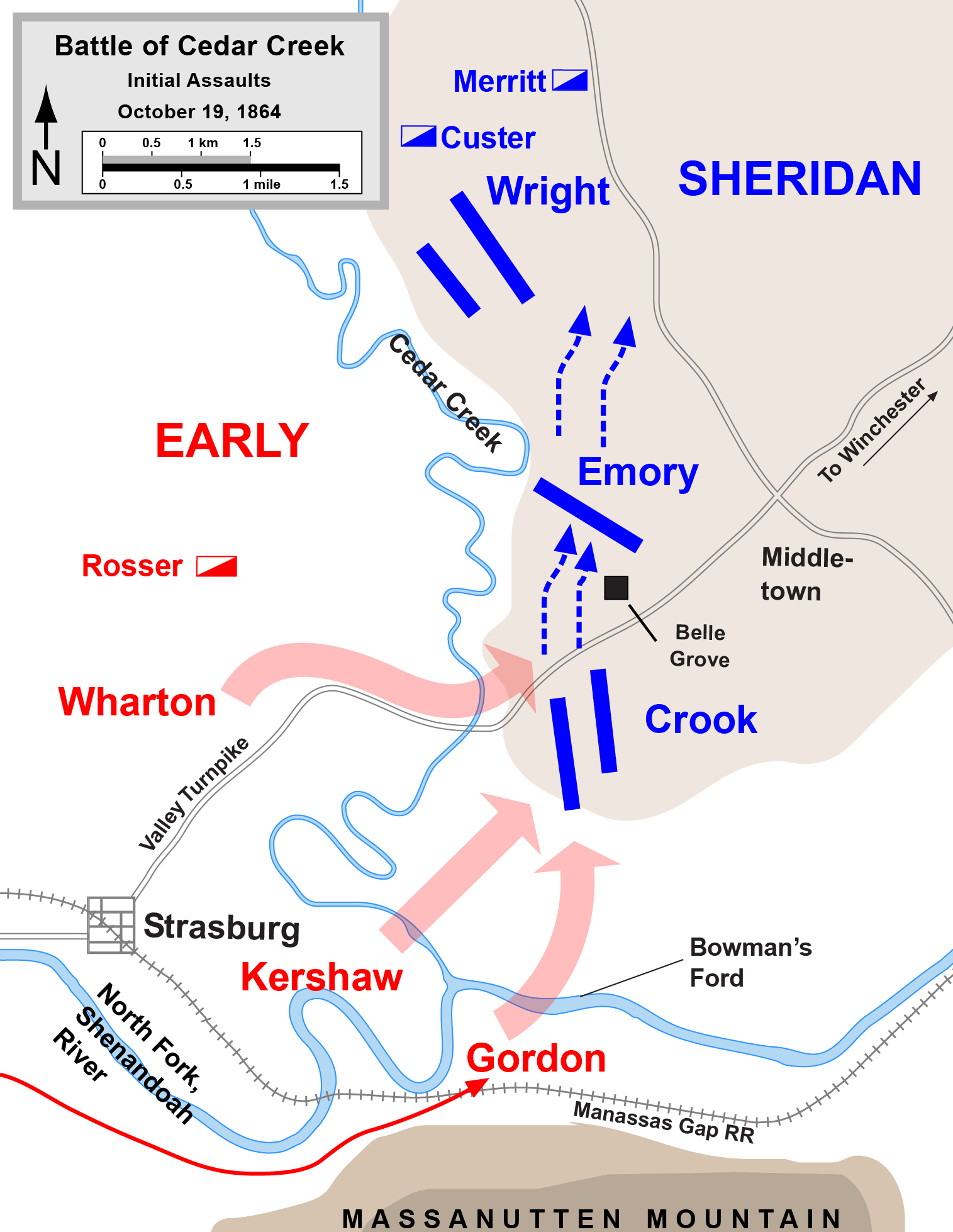 map of Cedar Creek battle